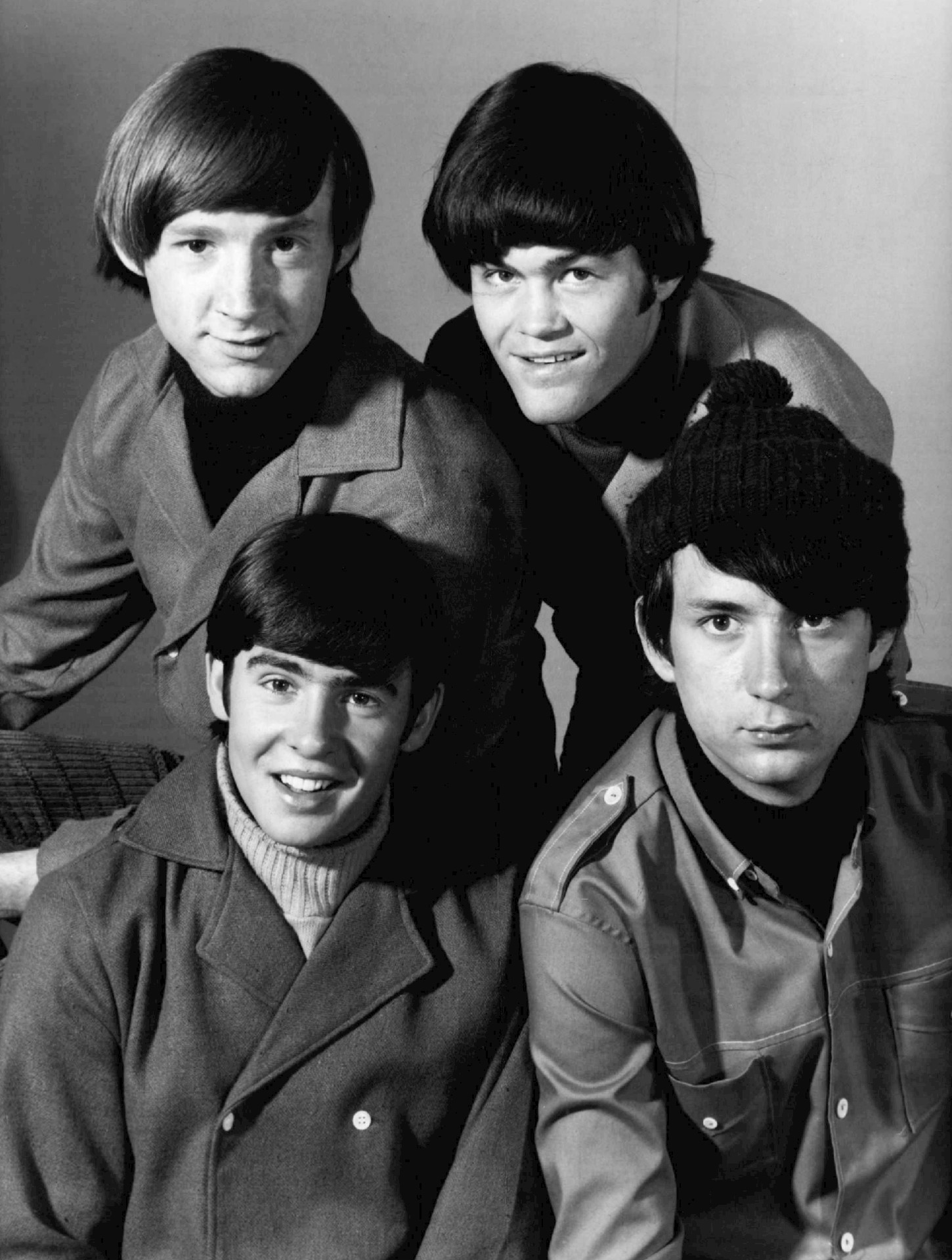 Photo of The Monkees.